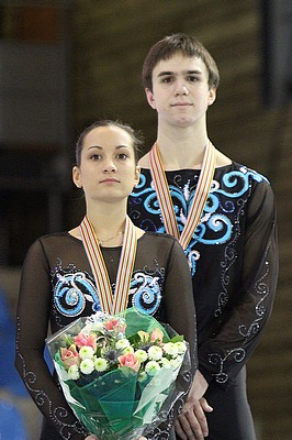 2010 World Junior Figure Skating Championships - Ksenia Stolbova and Fedor Klimov